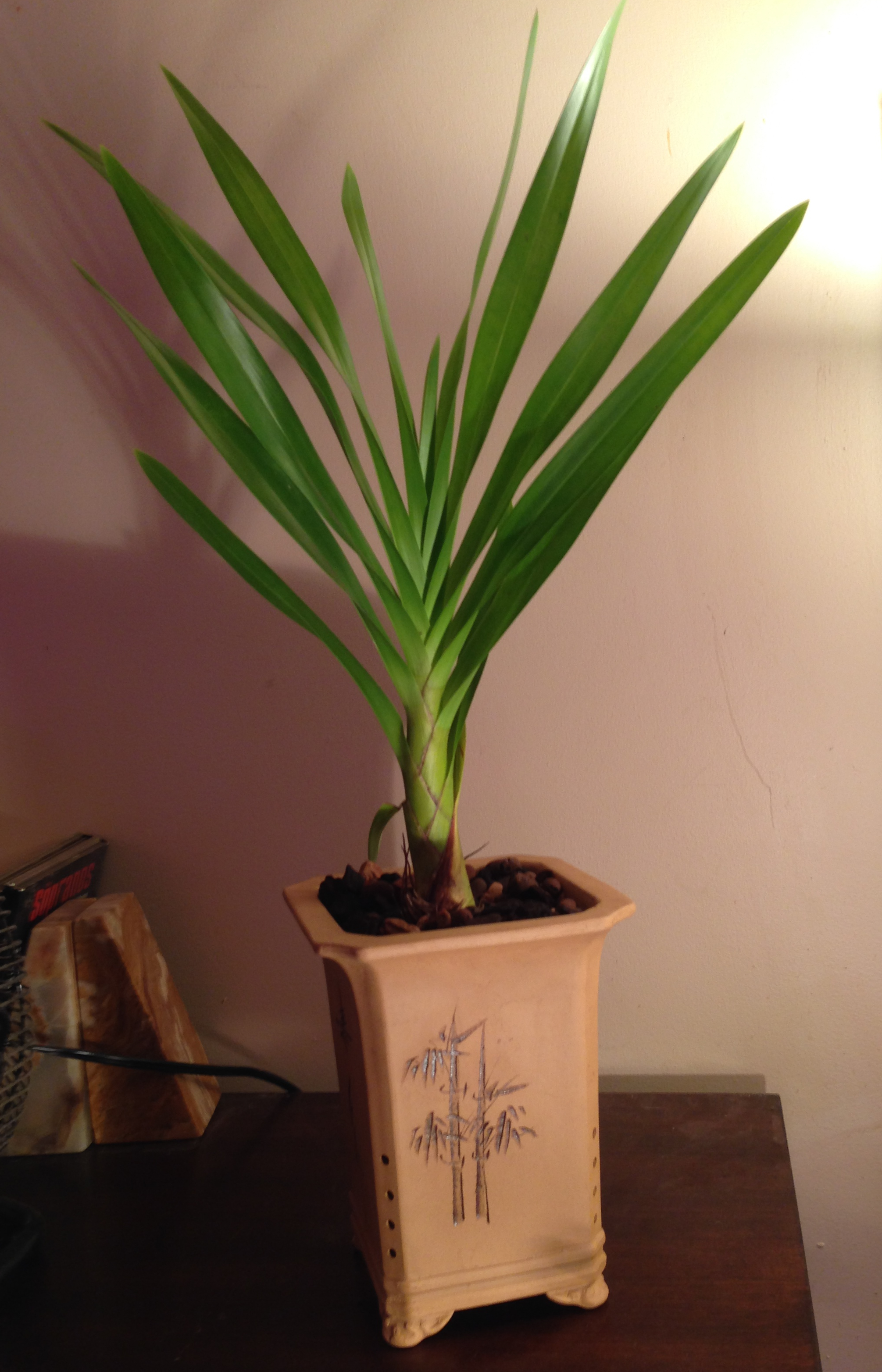 Grammatophyllum speciosum in a tall clay Chinese orchid pot for Oncidiums. This is a young, small specimen.